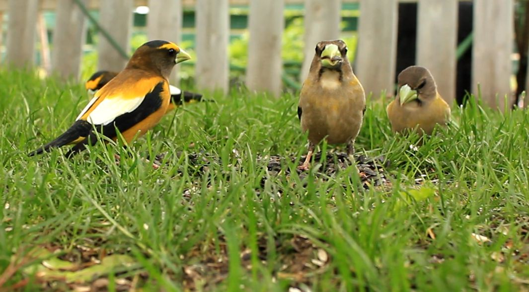 Evening Grosbeaks photographed in Kelowna BC, Canada